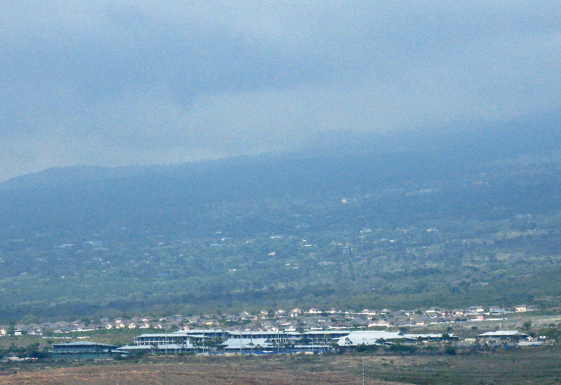 Kealakehe High School campus in the North Kona district of the island of Hawaii on the slopes of Hualalai. This was taken from the old Kona Airport looking northwest. Visibility is poor due to vog from Kilauea eruption.